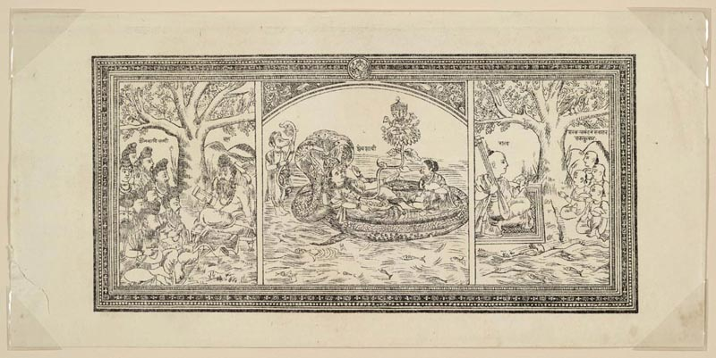 The Atha Naradiyamahapuranam is one of the 18 Puranas of Hinduism.